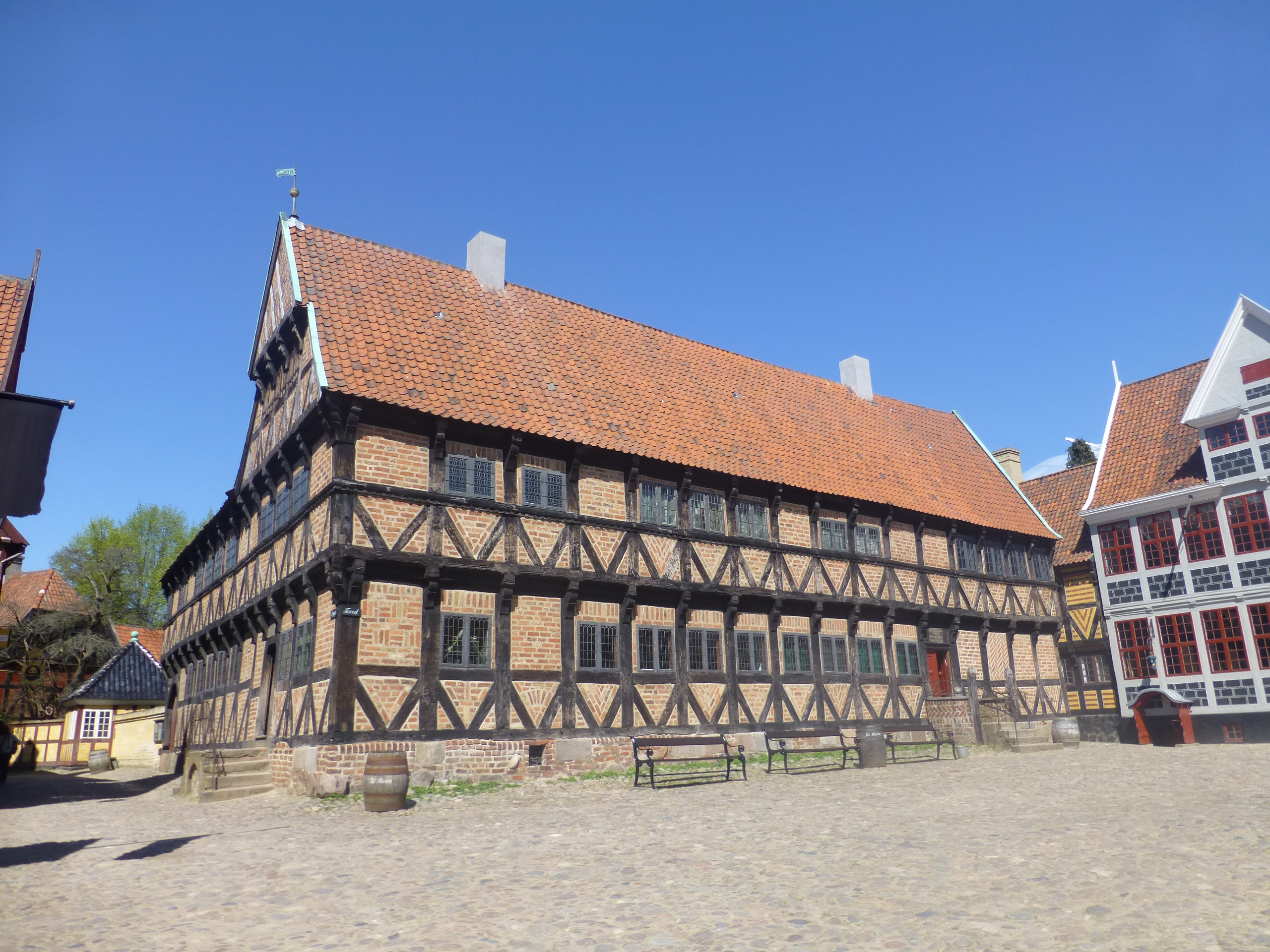 Borgmestergården (the Mayors Mansion) at Torvet in the museum town Den gamle By in Aarhus in Denmark. The mansion was build in Aarhus in 1597.